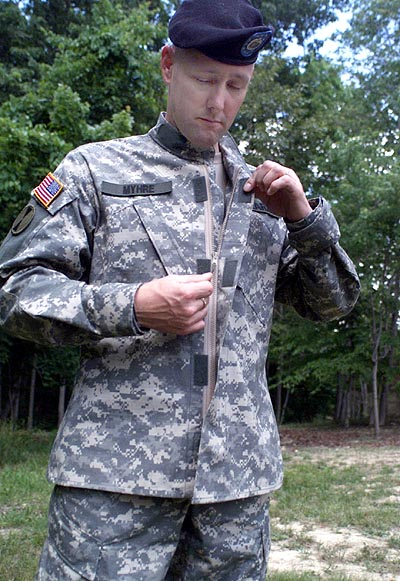 Sergeant First Class Jeff Myhre demonstrating the new Army Combat Uniform in June 2004.